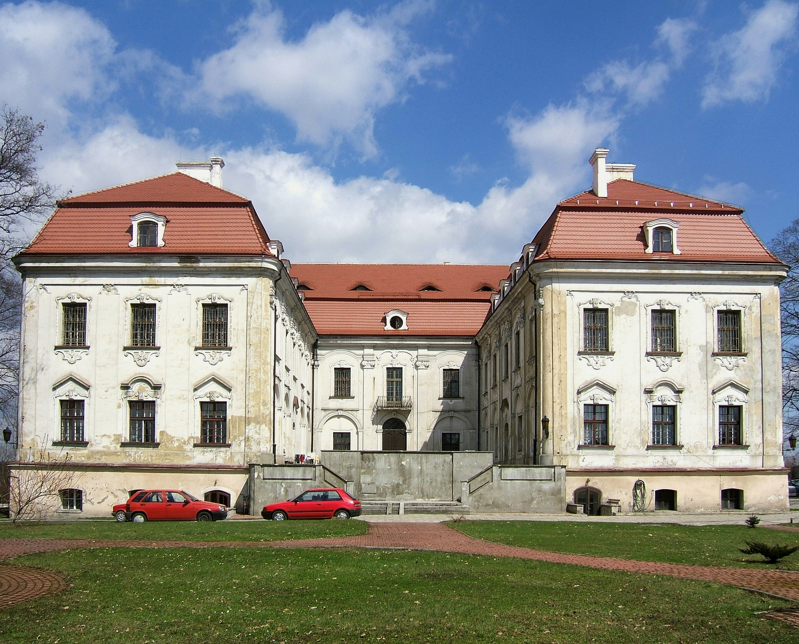 The baroque castle's front in Sośnicowice (Upper Silesia).